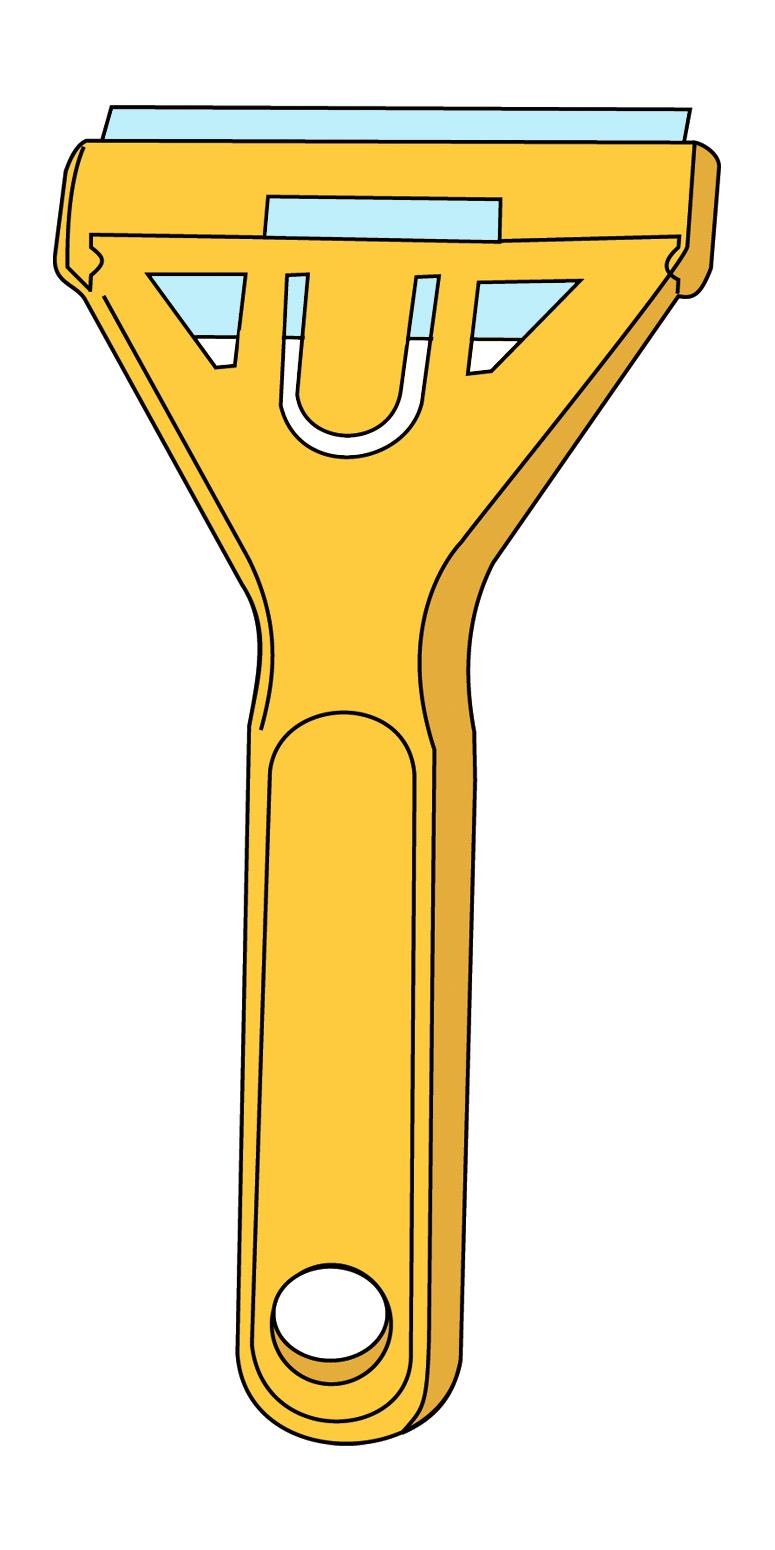 windows knife scraper